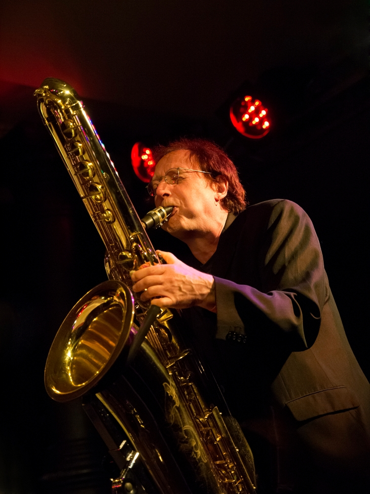 Wollie Kaiser, Jazz saxophonist; Picture taken in Jazz Club Unterfahrt, Munich/Bavaria